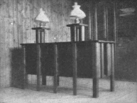 Combination desk, reading table, and bookcase, rear view, built from designs in Louise Brigham's book "Box Furniture"